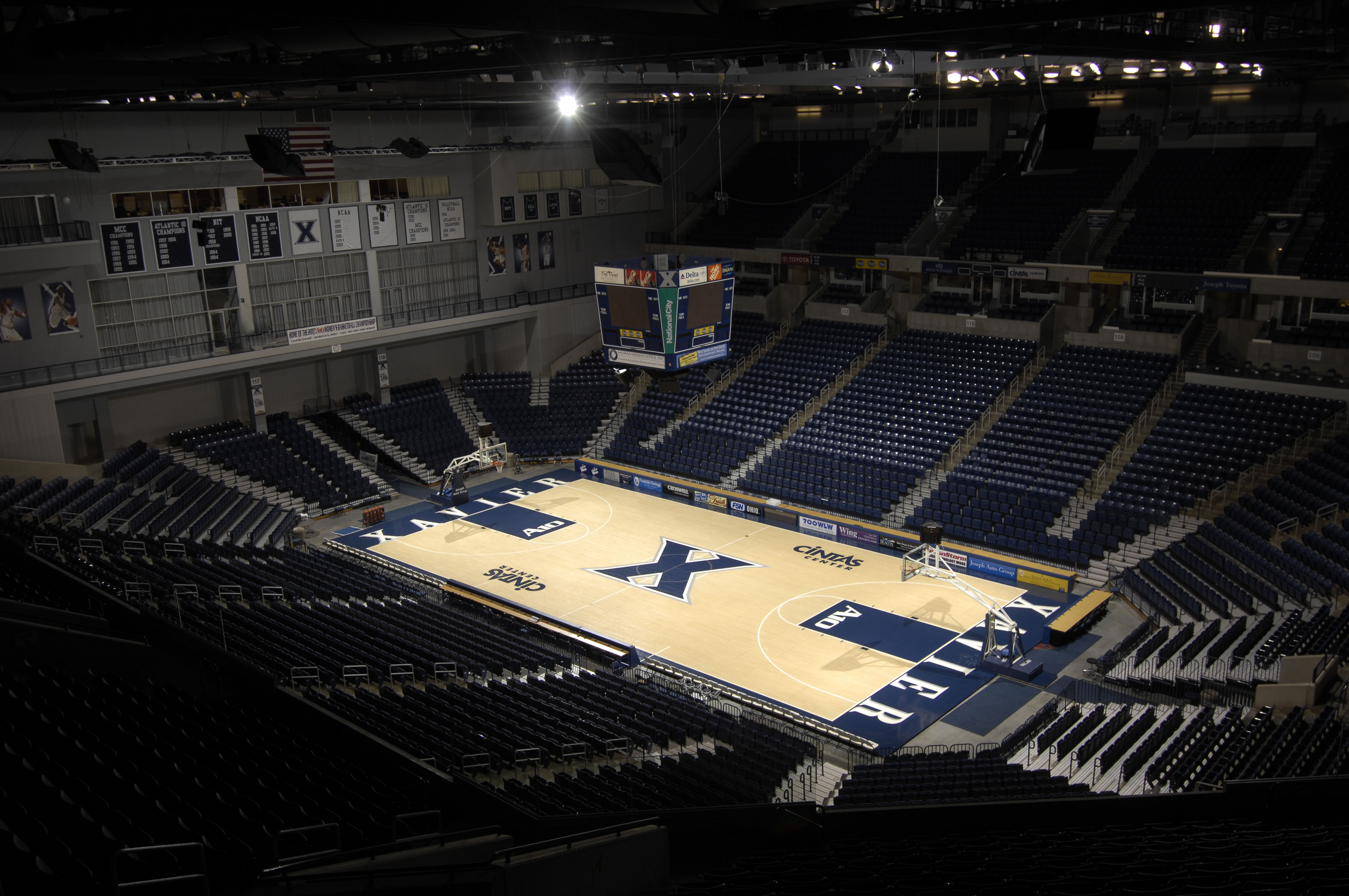 Cintas Center Empty